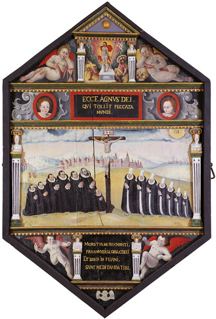 A 16th century Icelandic votive panel depicting Magnus Jonsson from Svalbard, Eyjafjord, and his family.